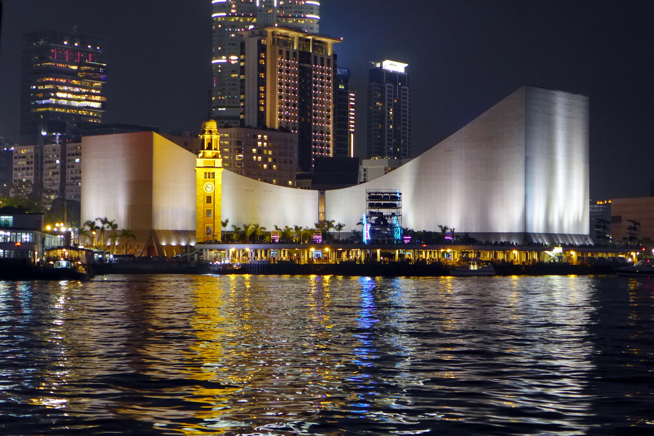 Hong Kong Cultural Centre Night view